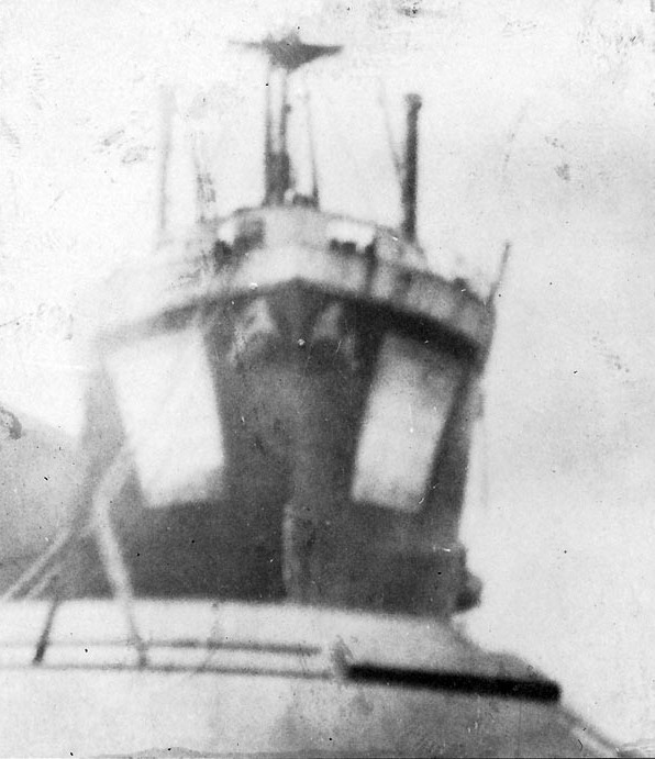 Commercial cargo ship SS Rondo, possibly when inspected by the 3rd Naval District for World War I US Navy service on 25 March 1918. She later served as USS Rondo (ID-2488).